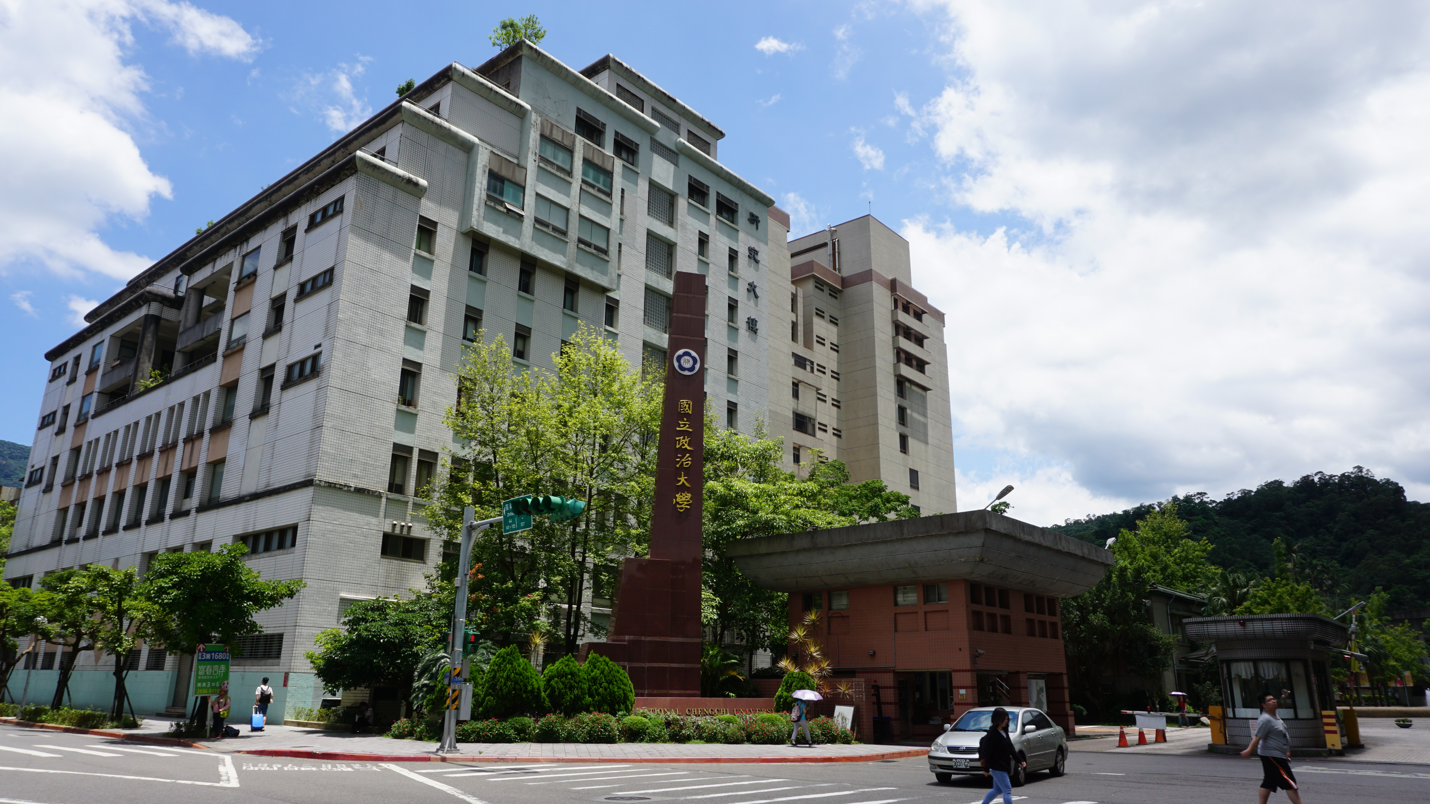 National Chengchi University in Taiwan.